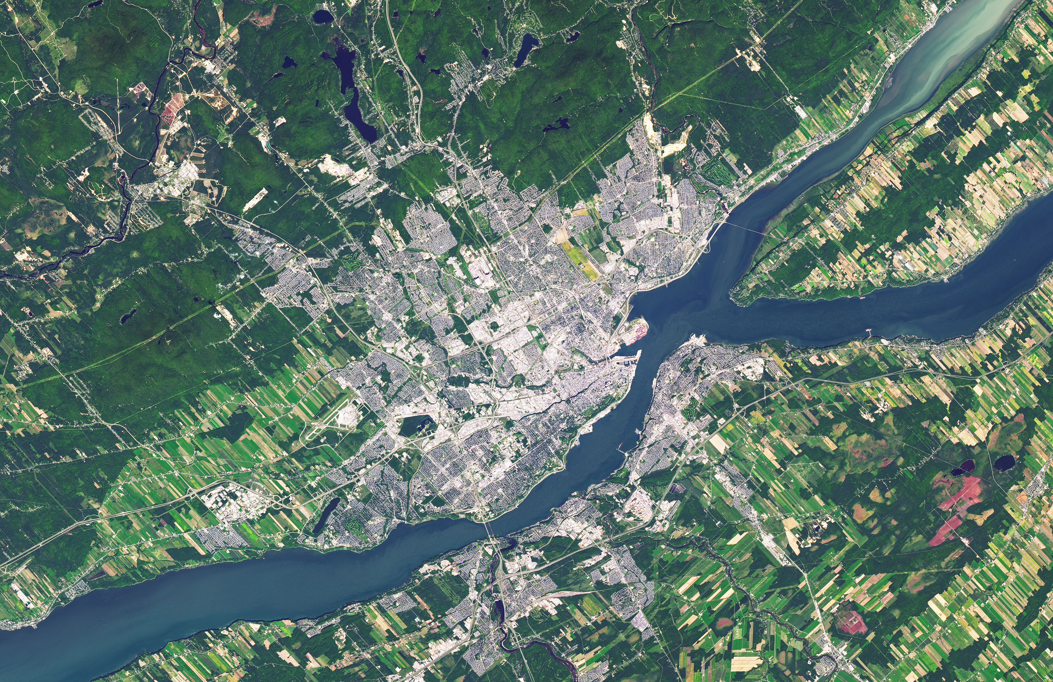 Quebec City From Above (NASA)